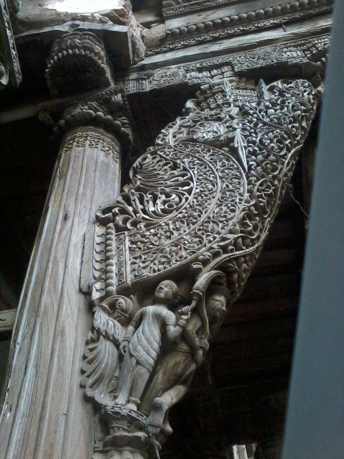 lots of home still present in modern Gujarat but many beam or pillars are still present for us, wodden work use for decoration in front of home.